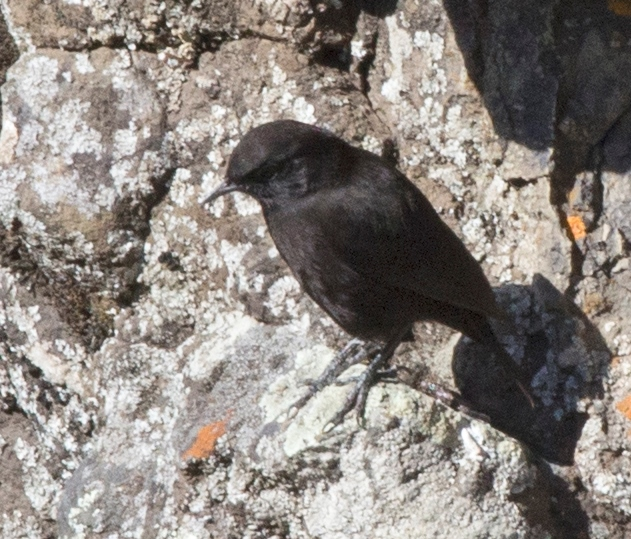 Rüppell's Black Chat (Myrmecocichla melaena), Debre Libanos, Ethiopia